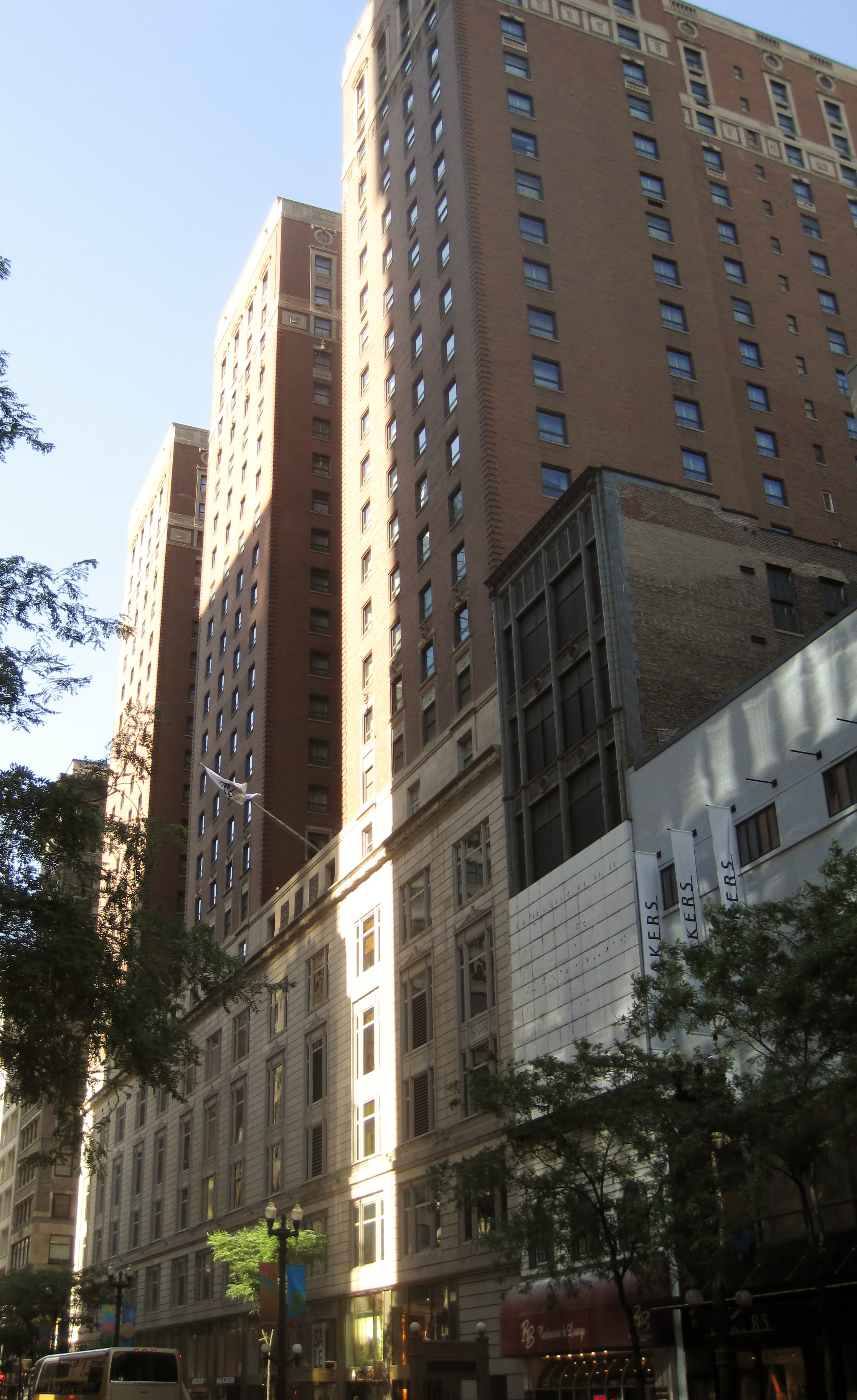 The Palmer House in the Loop Retail Historic District (1923). Designed by Holabird & Roche and first opened in 1923, it became renowned as one of the finest hotels in the country. Hilton bought the hotel in 1945.